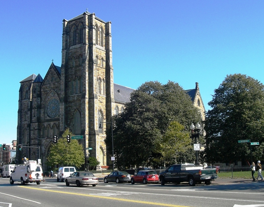 Boston Catholic cathedral